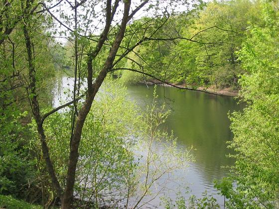 Volkspark Wilmersdorf in Berlin; Fennsee lake